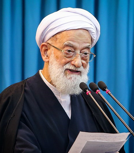 Emami Kashani in Nov 6th 2015 Tehran Friday Prayers.